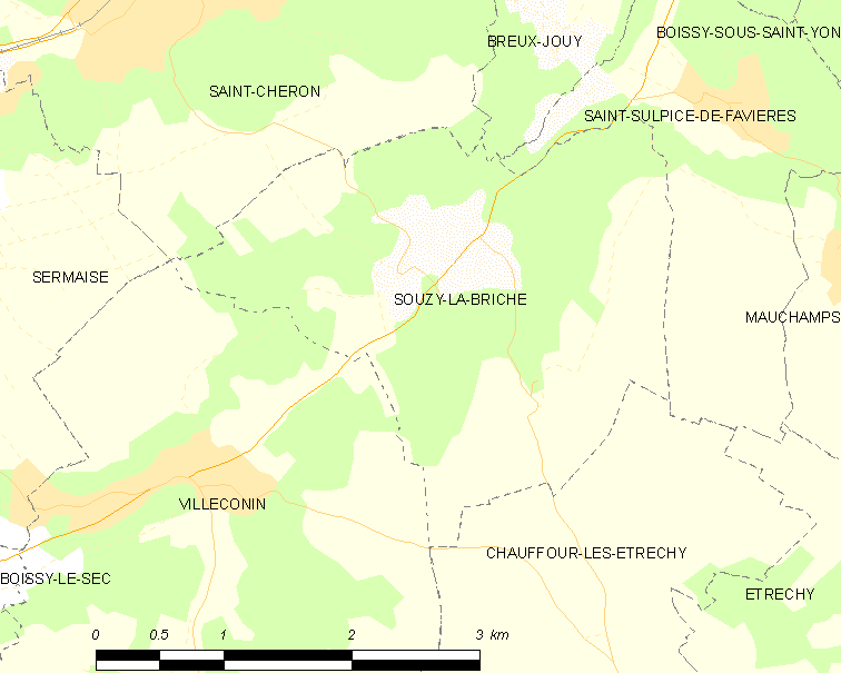 Map of French municipality Souzy-la-Briche